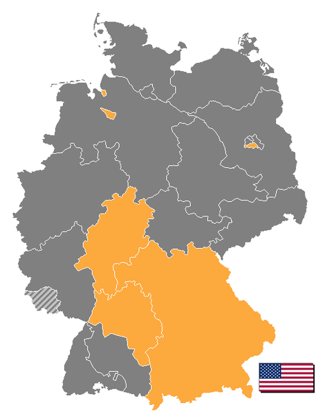 American sector of occupied Germany 1945-1949